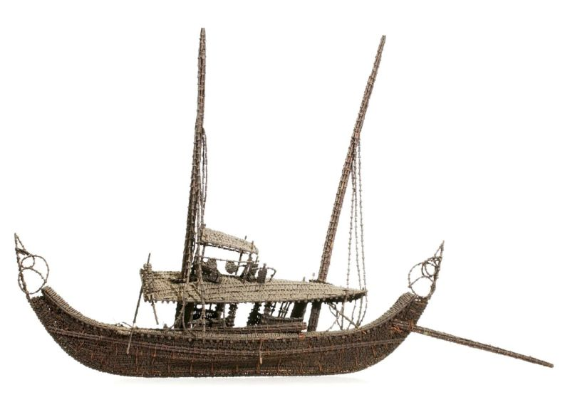 Clove model of a proa